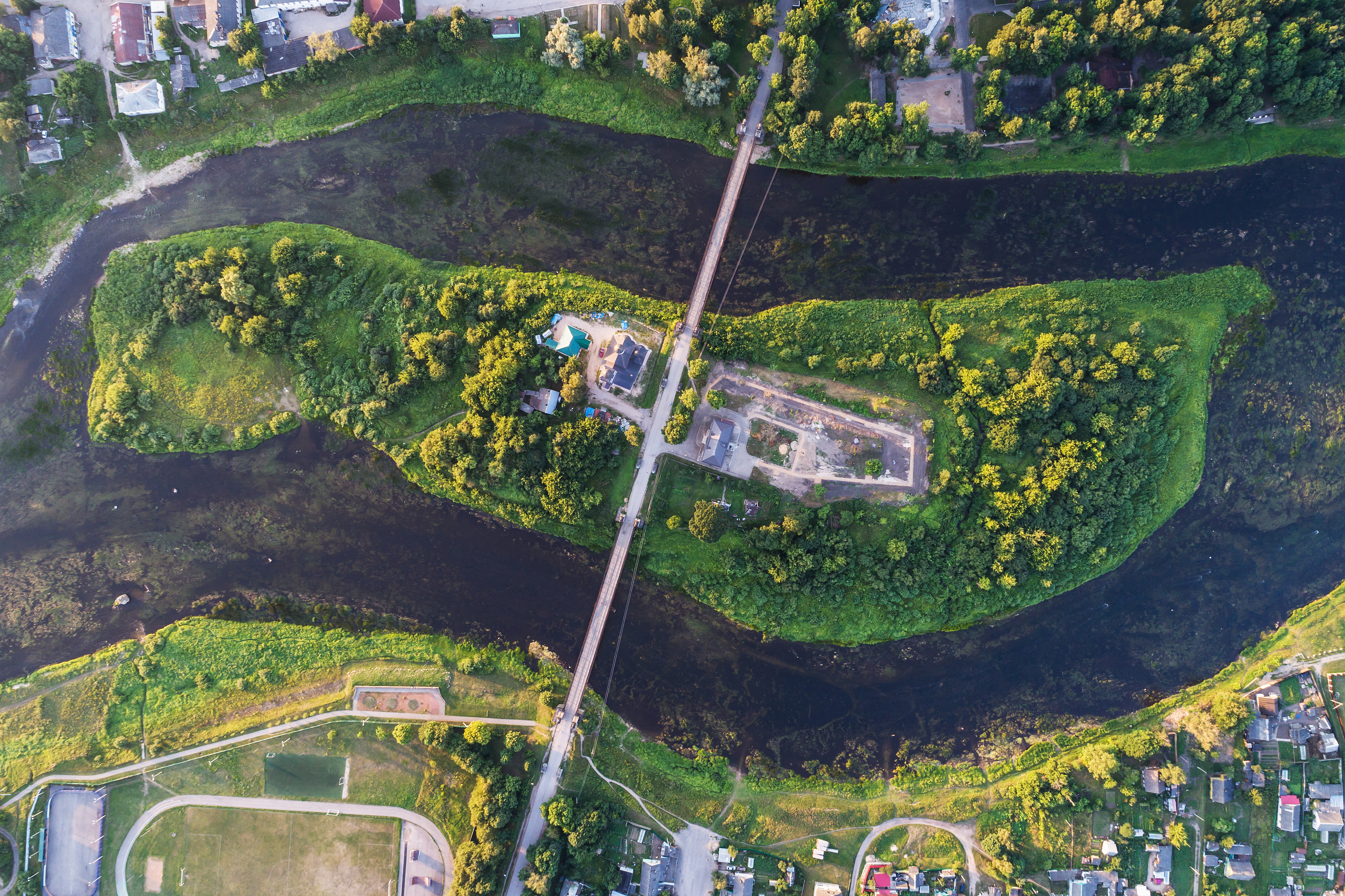 Aerial view – fortress island and Chain Bridges in Ostrov, Pskov Oblast, Russia.